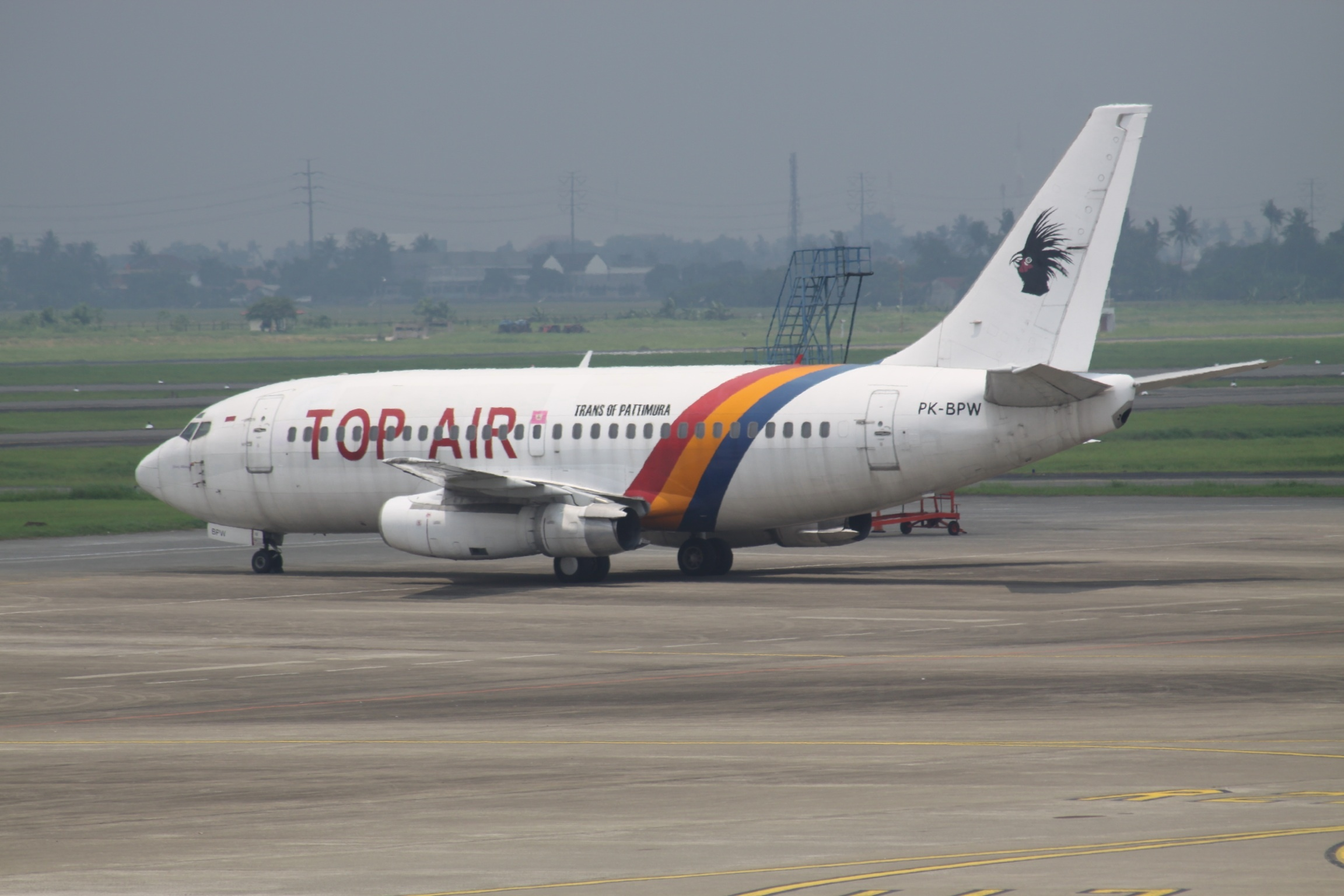 At Jakarta Soekarno-Hatta